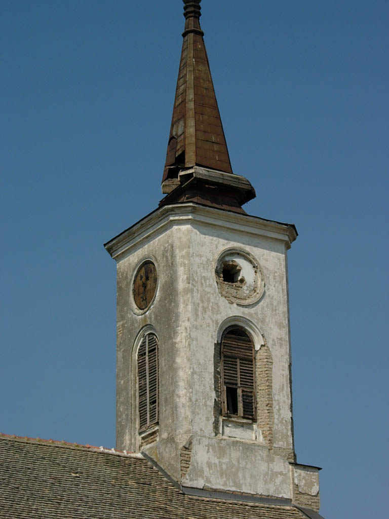 The steeple of the Roman Catholic church in Tovariševo, Vojvodina, Serbia.